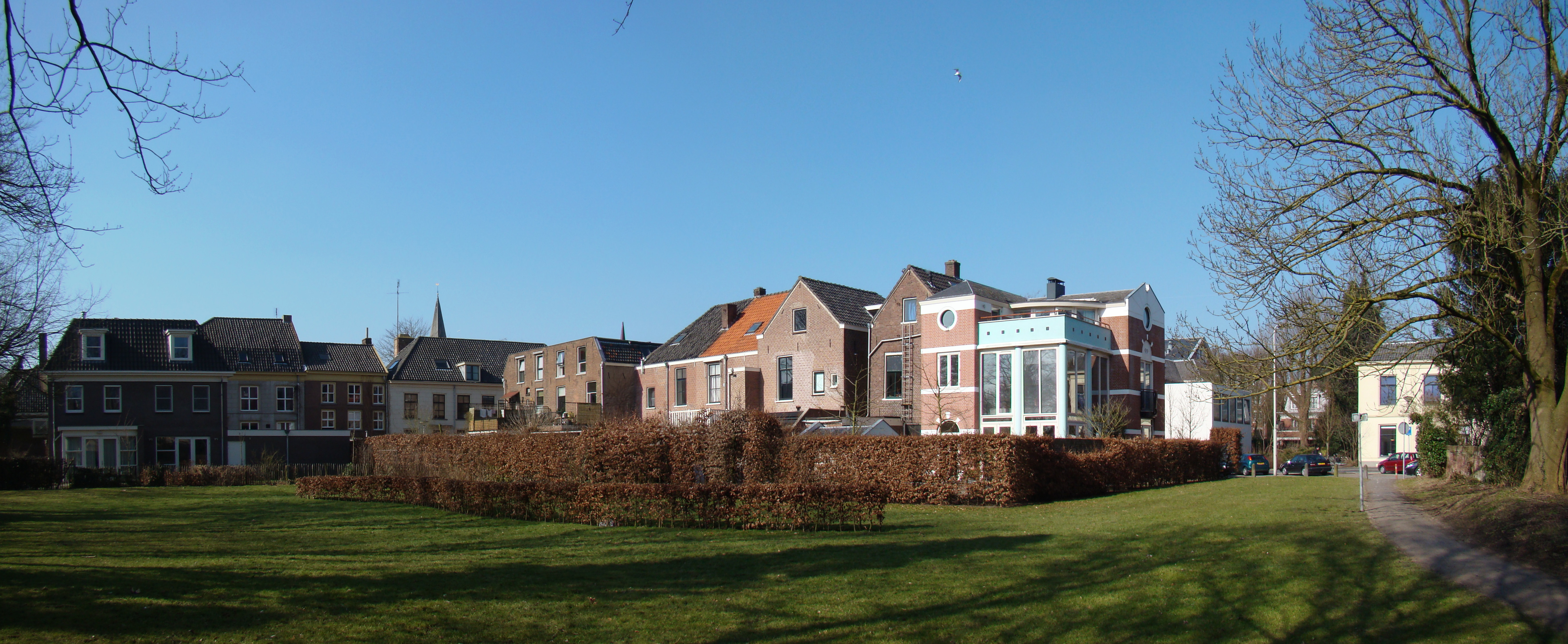 Bowlespark at Wageningen Netherlands